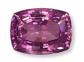 Pyrope